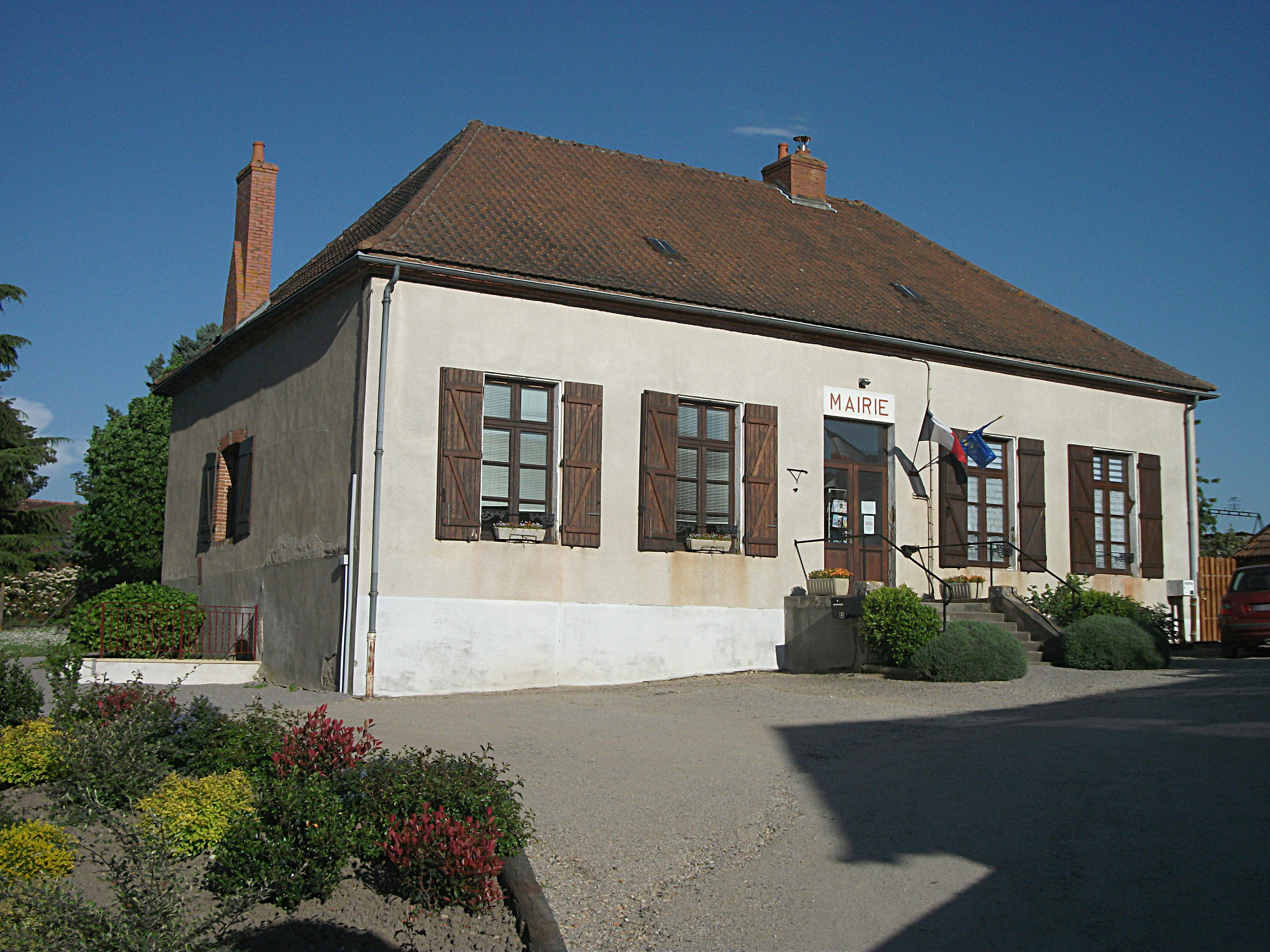 Town hall of Monétay-sur-Allier, Allier, Auvergne-Rhône-Alpes, France [16158]